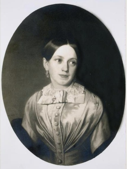 Middendorf, Hedwig von, geb. Hippius (1825—1868)